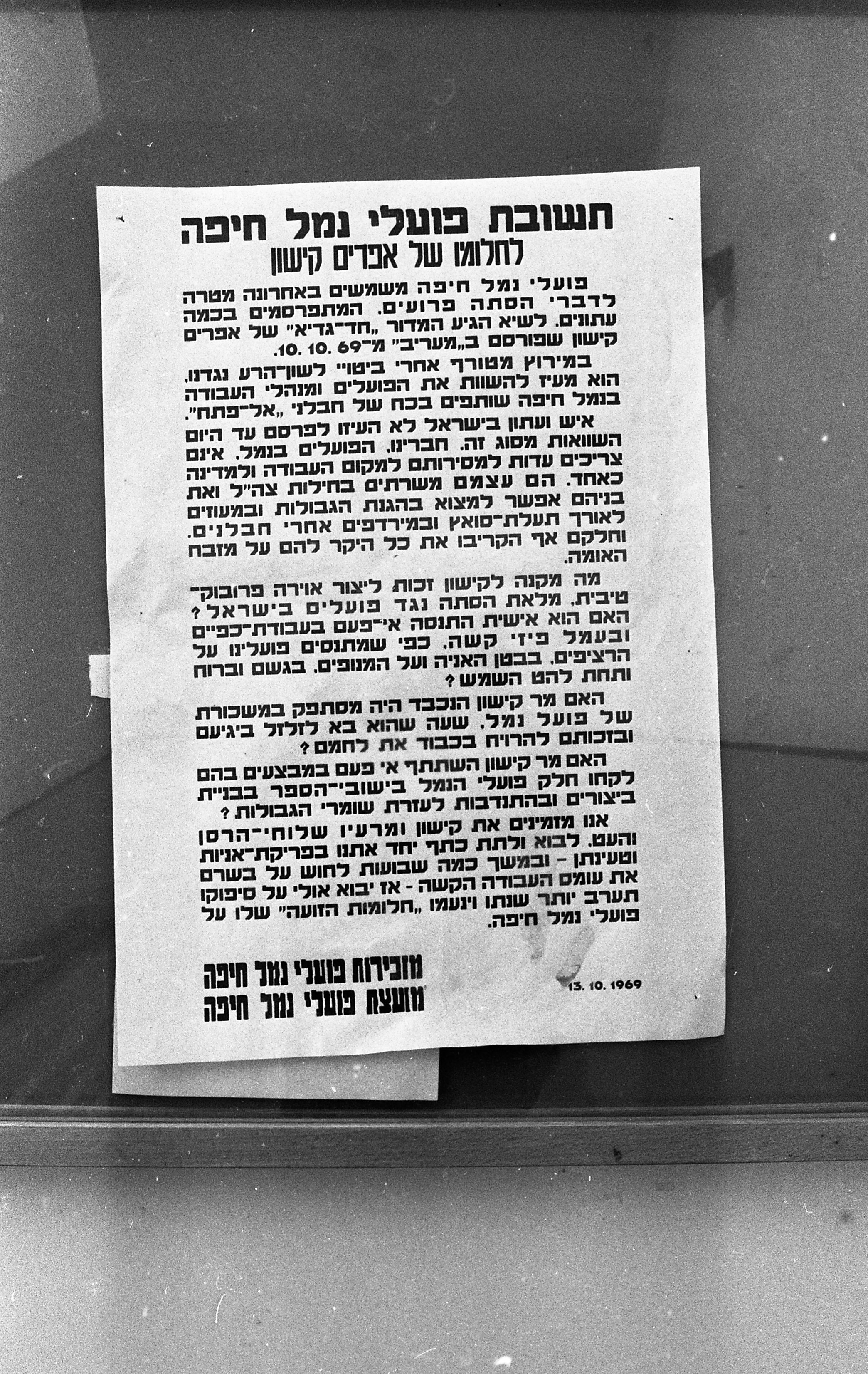 The Haifa Port workers decided to call a strike.